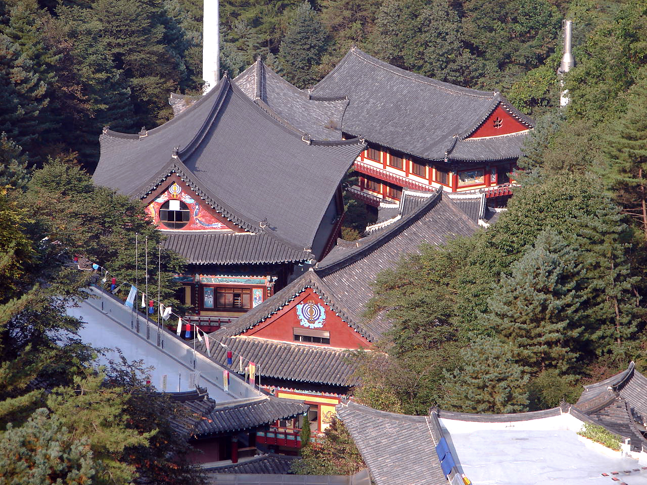 Guinsa Nestled in the Valley in Sobaeksan (Sobaek Moutains). Guinsa, located near Danyang County, South Korea, has architecture following that of many other Buddhist temples in Korea, but is also markedly different in that the structures are several stories tall, instead of the one or two stories typical of most Korean Buddhist temples.